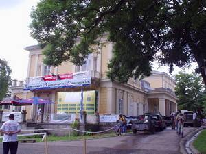 Tisza Manor House Nagykovácsi July 2006 Author: artdesigns2006